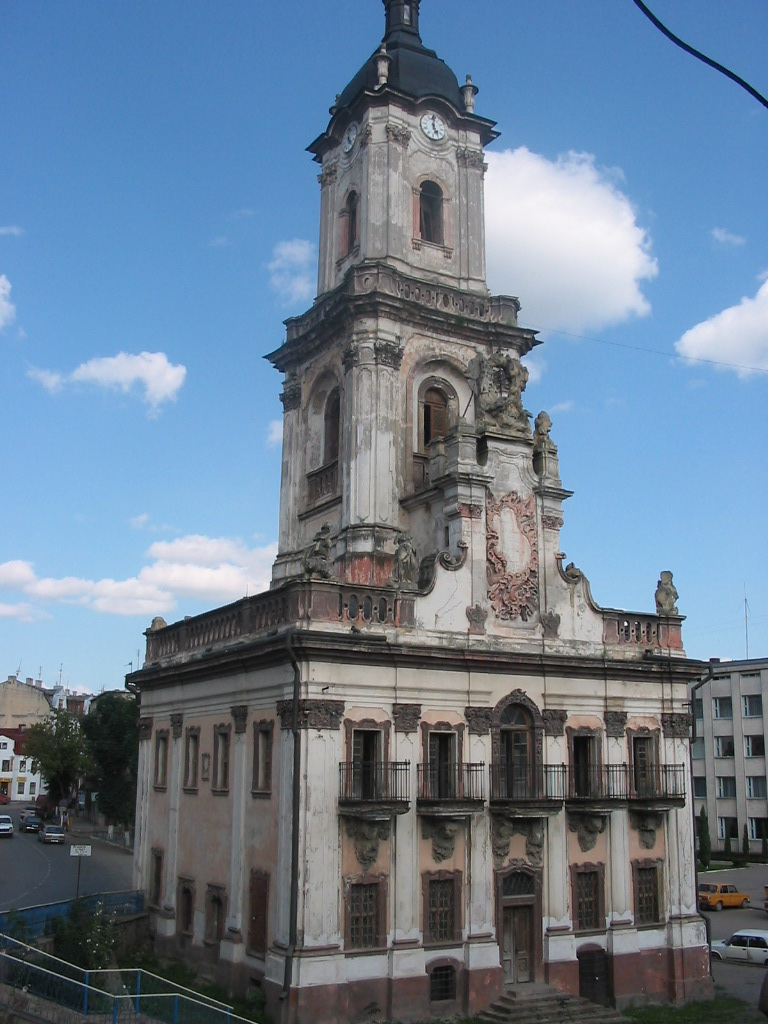 The City Hall of Buchach, Ukraine